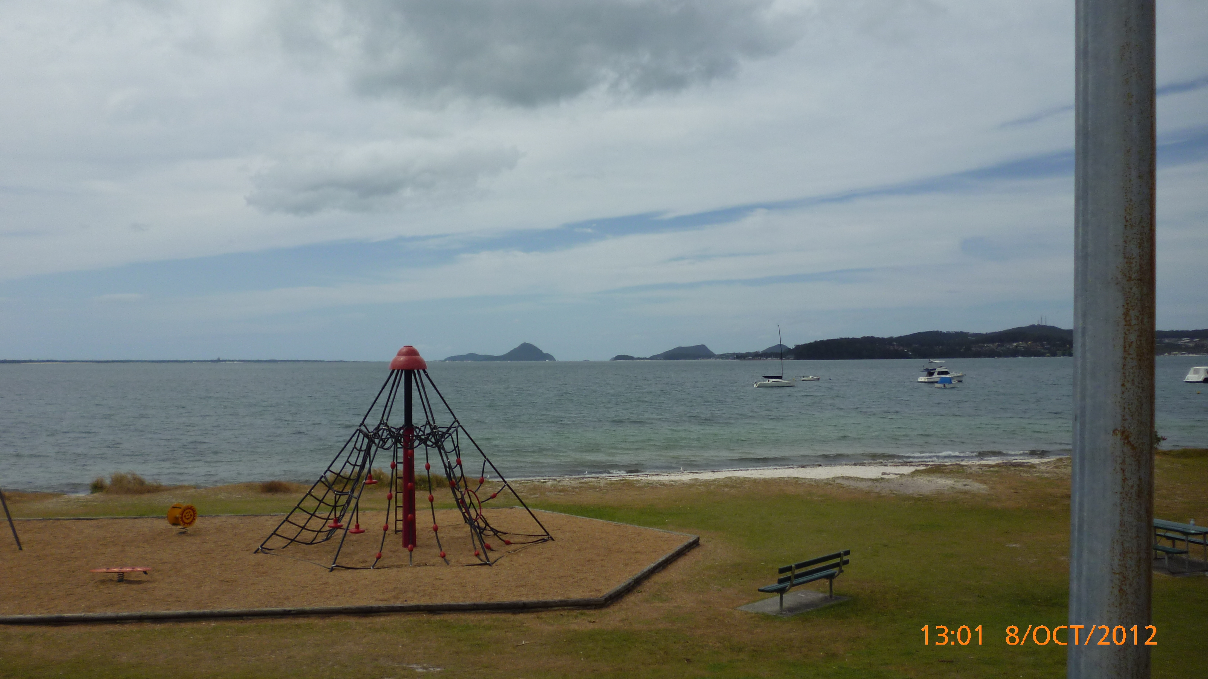 View from Salamander Bay east towards the mouth of Port Stephens (approximately 12 km (7.5 mi) away) in New South Wales, Australia.